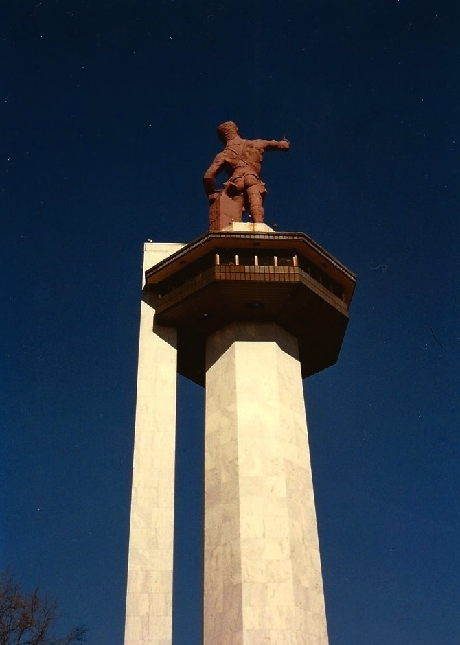 Photograph of the Vulcan statue located in Birmingham, Alabama taken January 1990. This photograph shows how the statue looked prior to the 1999–2004 restoration.